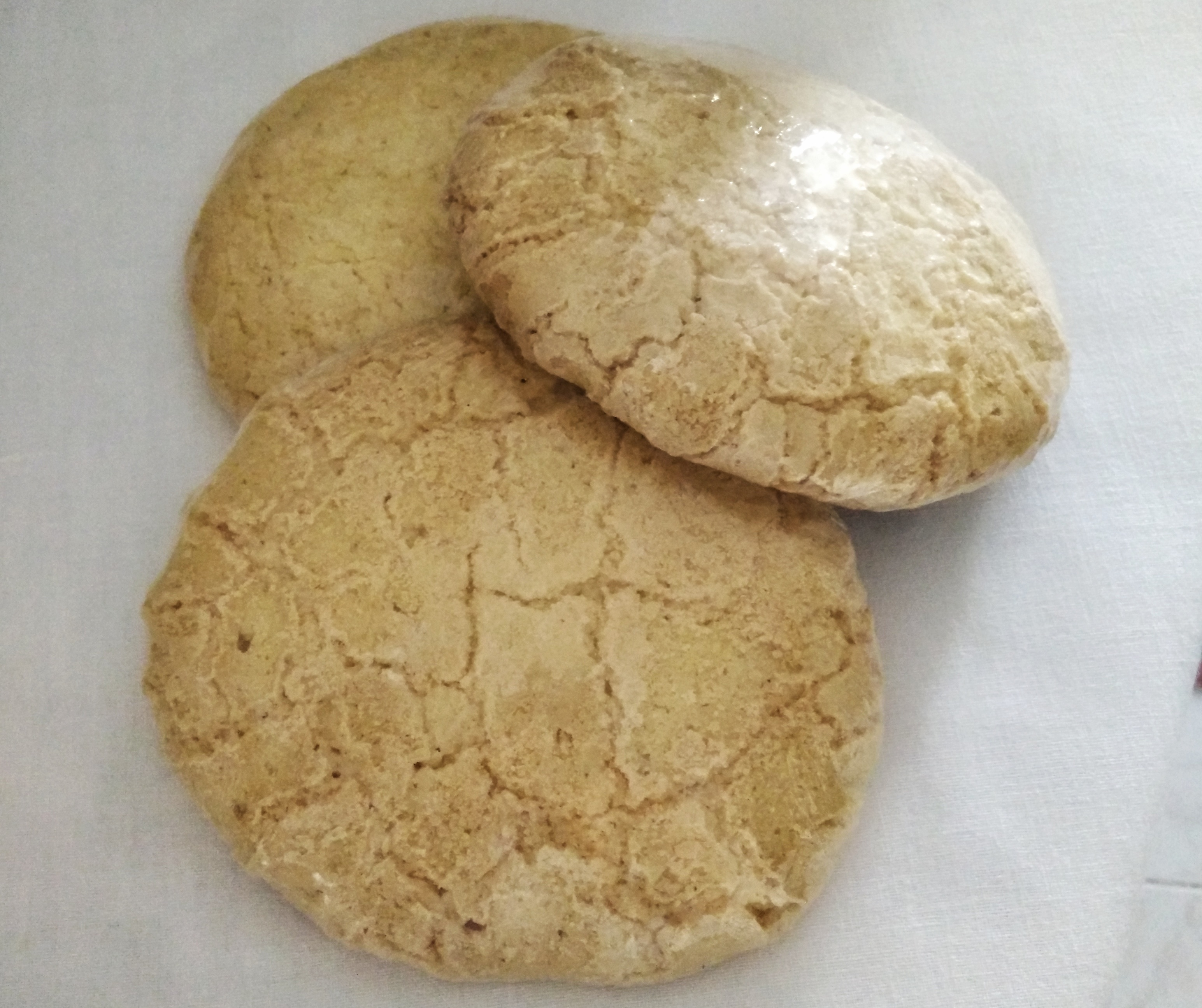 Albanian traditional sweet. city origin Elbasan.